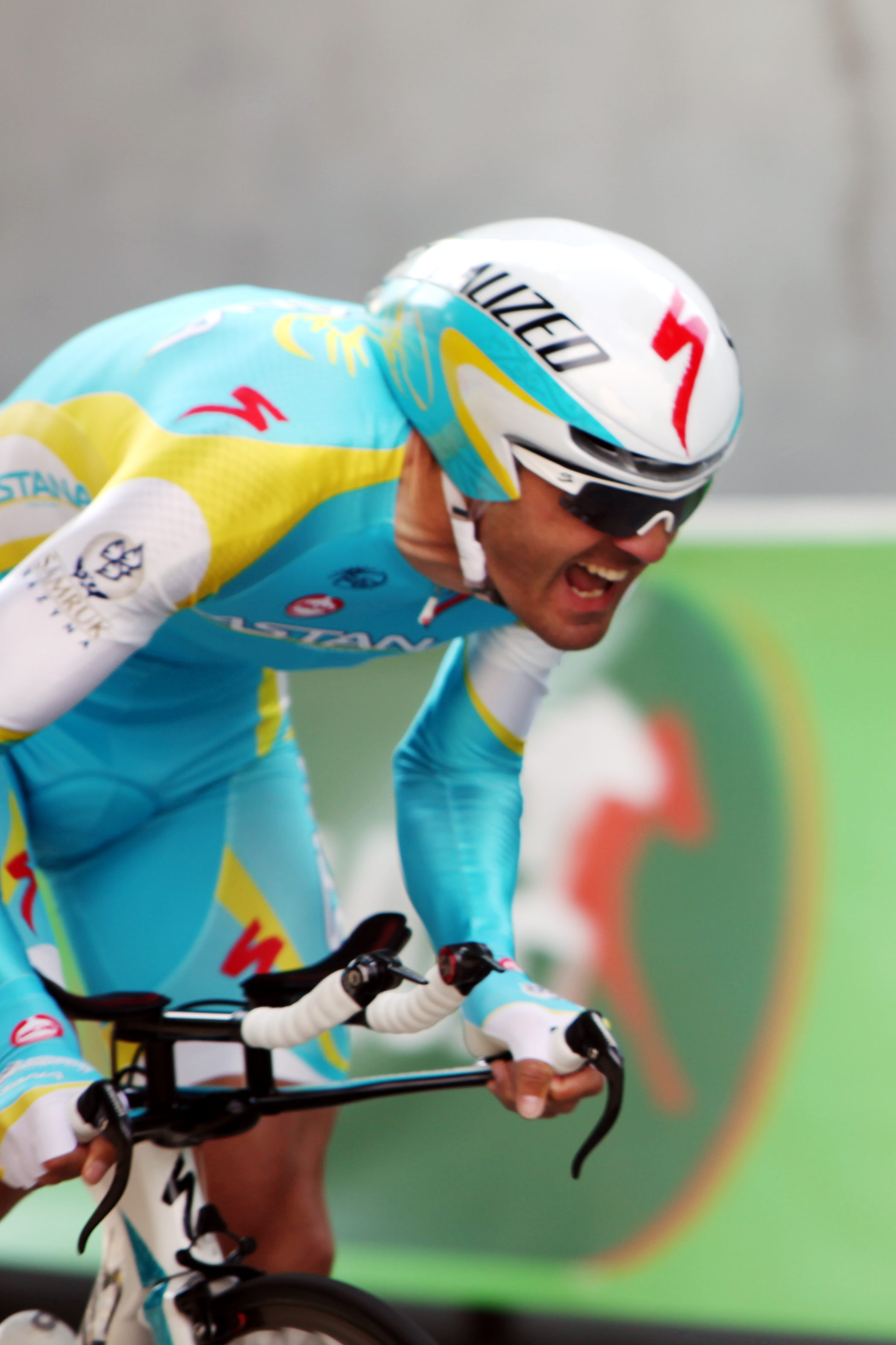 Gorazd Stangelj at the prologue of the Tour de Romandie 2011